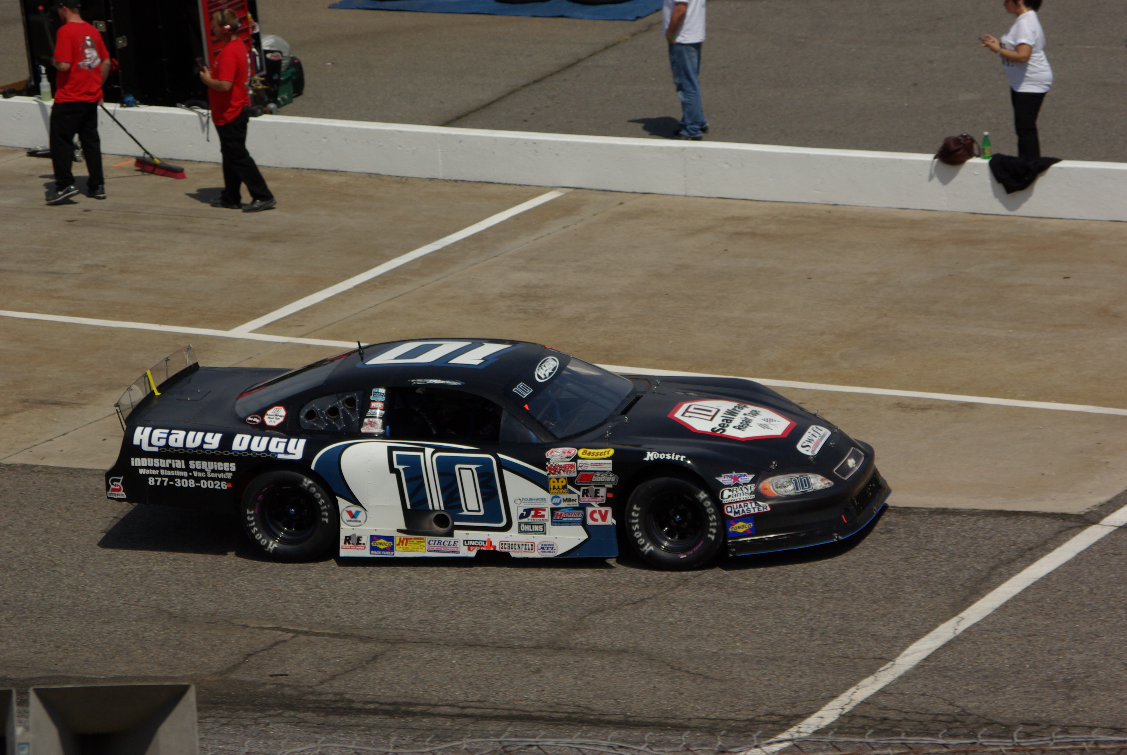 Ryan Blaney driving his PASS super late model racecar at "The Race" at North Wilkesboro Speedway, North Wilkesboro, NC April 10, 2011